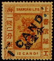 Shanghai postage stamp 1877 - 1 candareen overprinted on 12 candareens